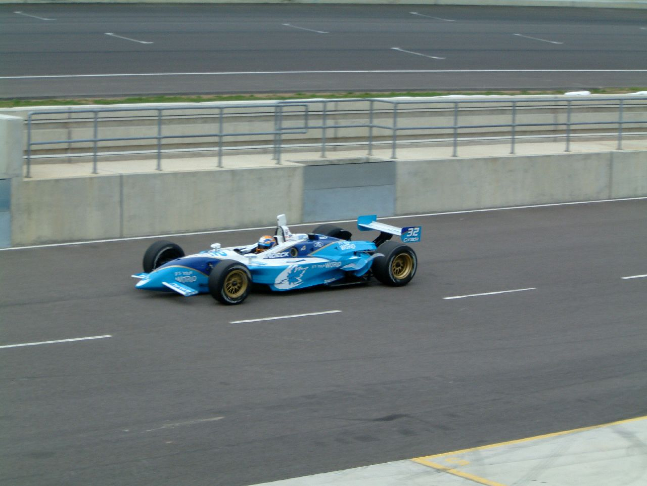 Patrick Carpentier driving his car in the pit lane at the 2002 Sure For Men Rockingham 500